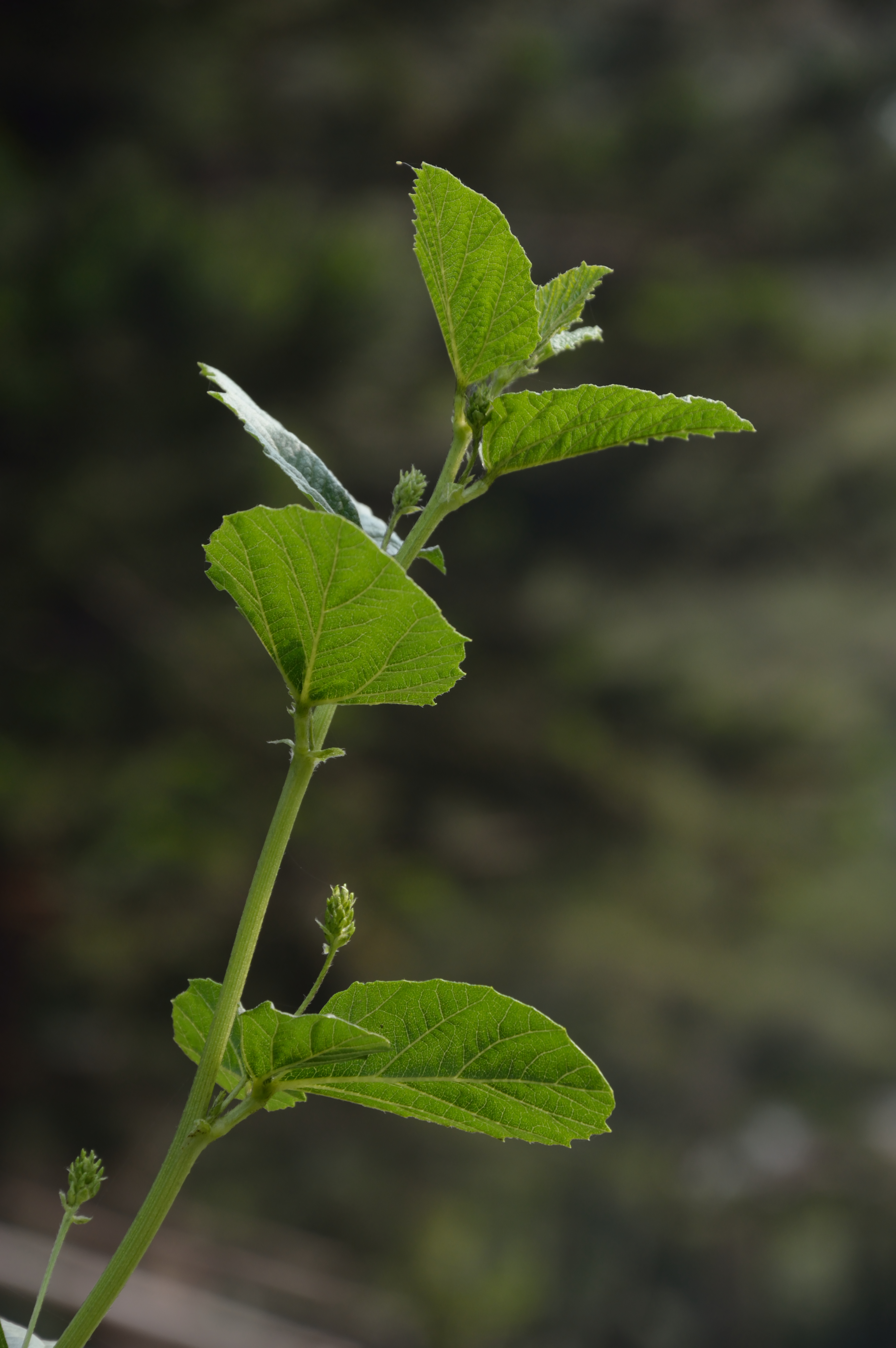 Photographs at The Agri-Horticultural Society of India, Alipore in Kolkata.